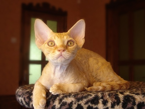 Male cat of Devon Rex breed.